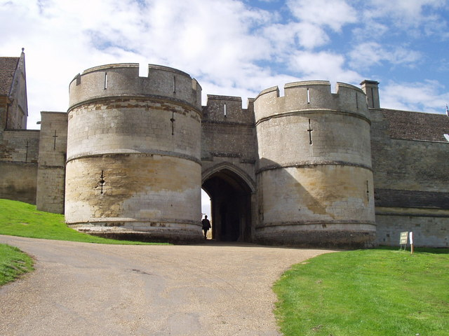 Rockingham Castle entrance. Rockingham Castle formerly a royal castle and hunting lodge, now the family home of the Saunders Watson family, in Rockingham Forest on the northern edge of the English county of Northamptonshire a mile to the north of Corby.